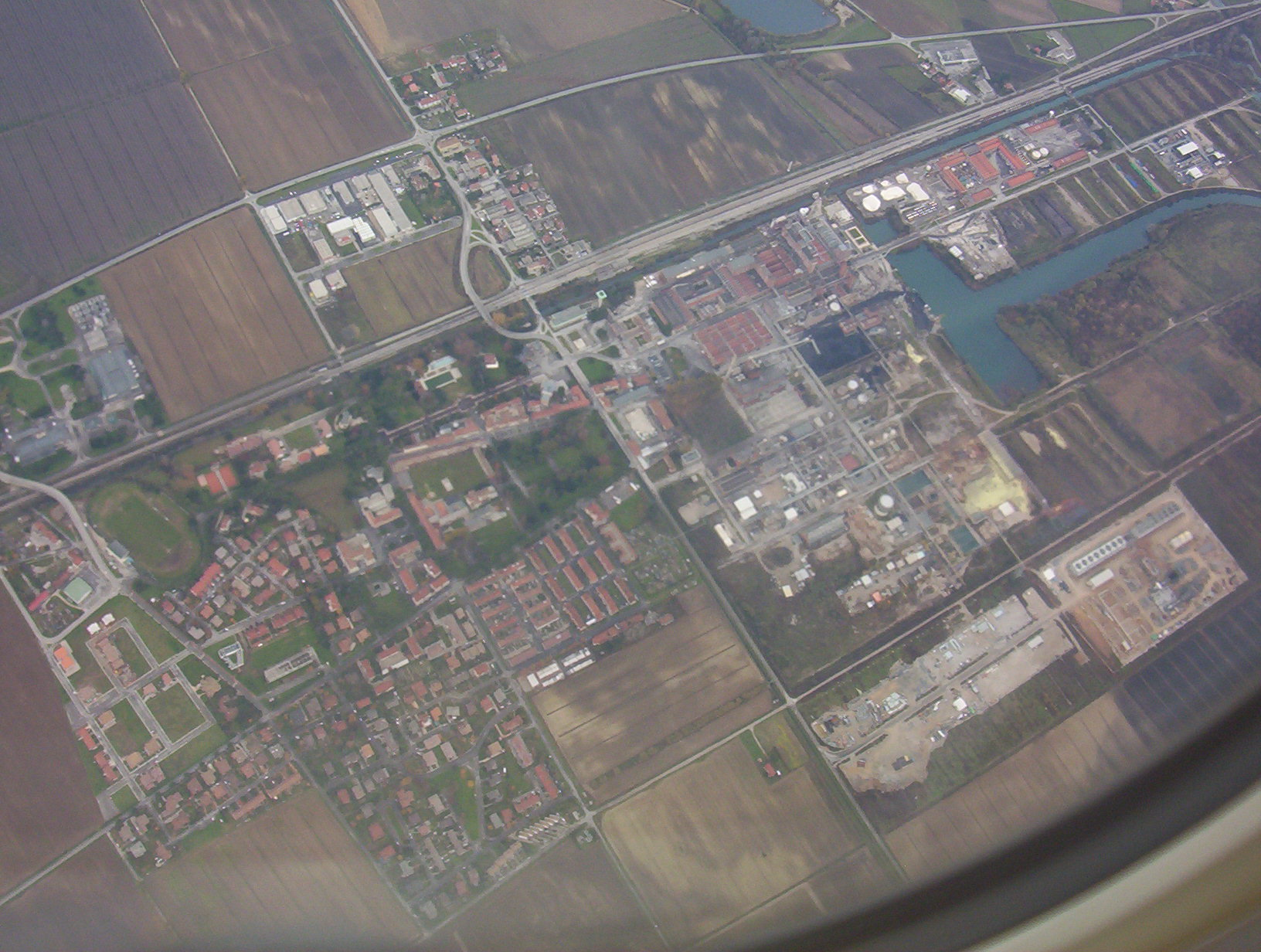 A view of Torviscosa (UD), Italy, taken from plane. The photo was taken by Trevirgola in December 2004.